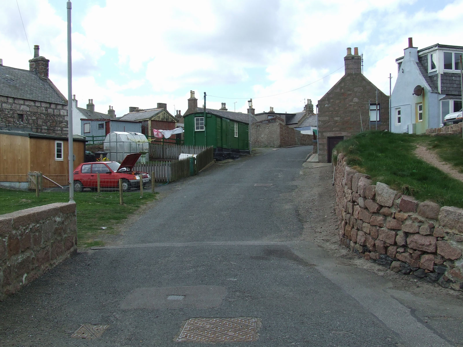 Depicted place: Boddam